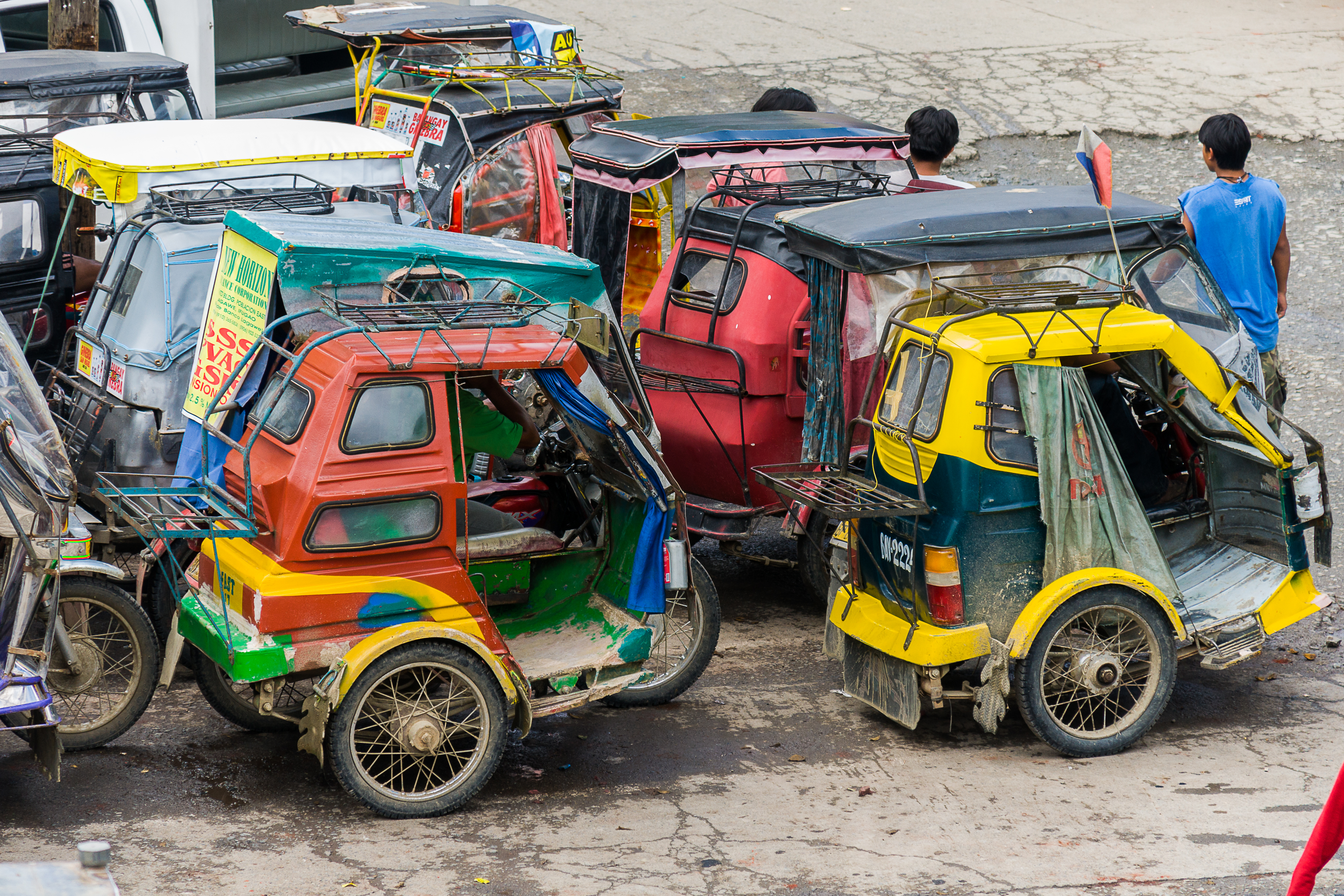 Banaue, Philippines: Local Taxi Stand in Banaue Municipal Town